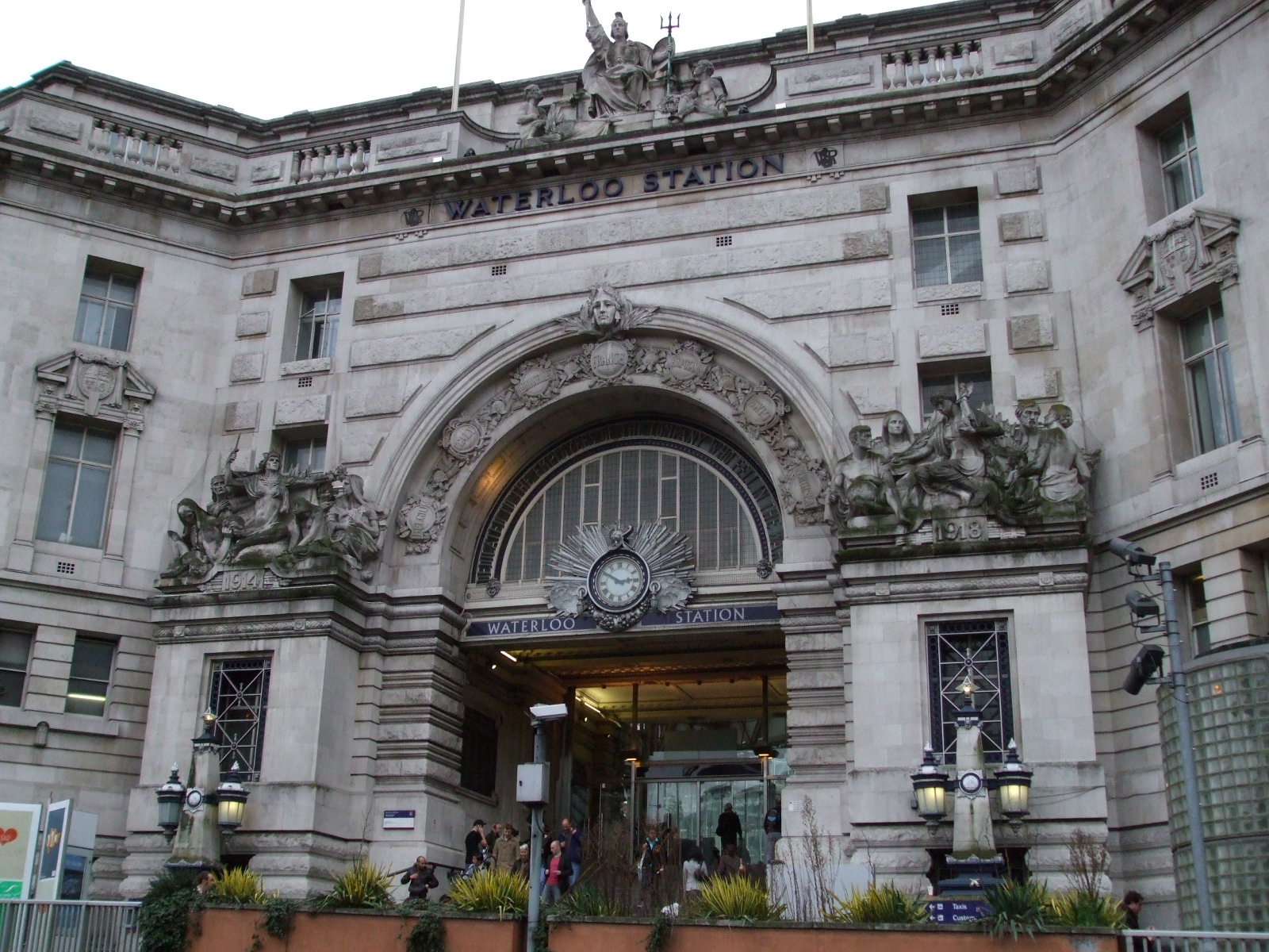 Main entrance to London Waterloo railway station, on the north-east side